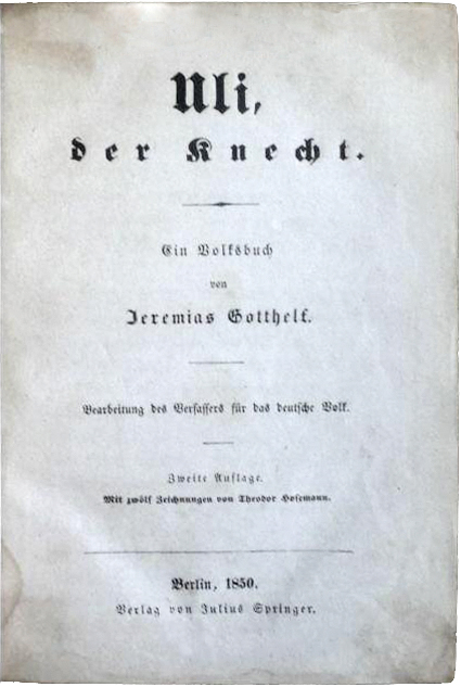 Title page of the standard German adaptation of the novel "Uli der Knecht" (2. edition).